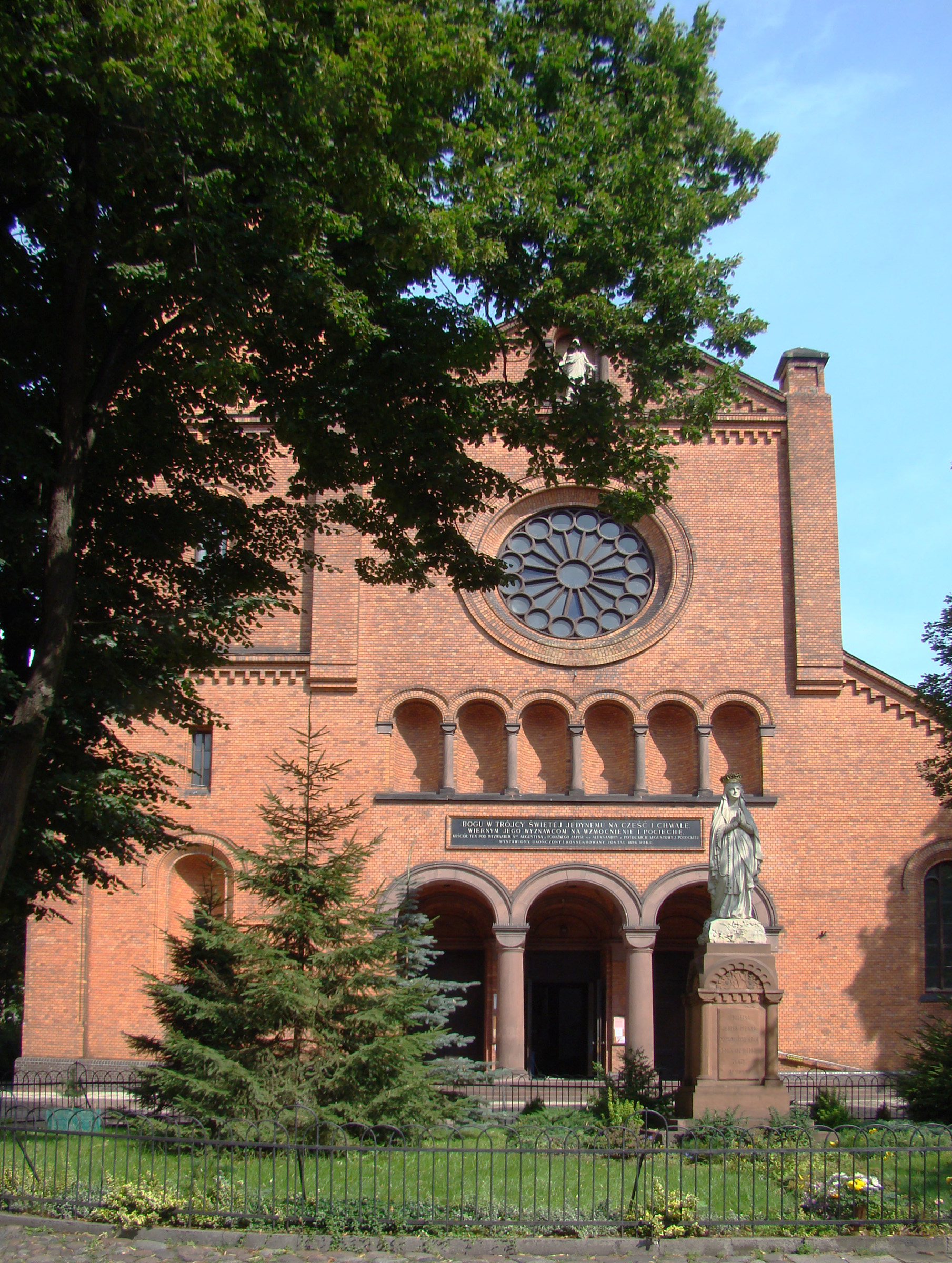 St. Augustine church, Nowolipki St., Warsaw